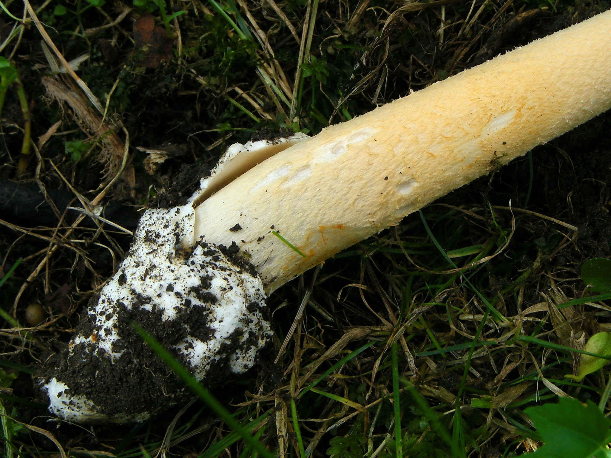 Amanita crocea + stem base.